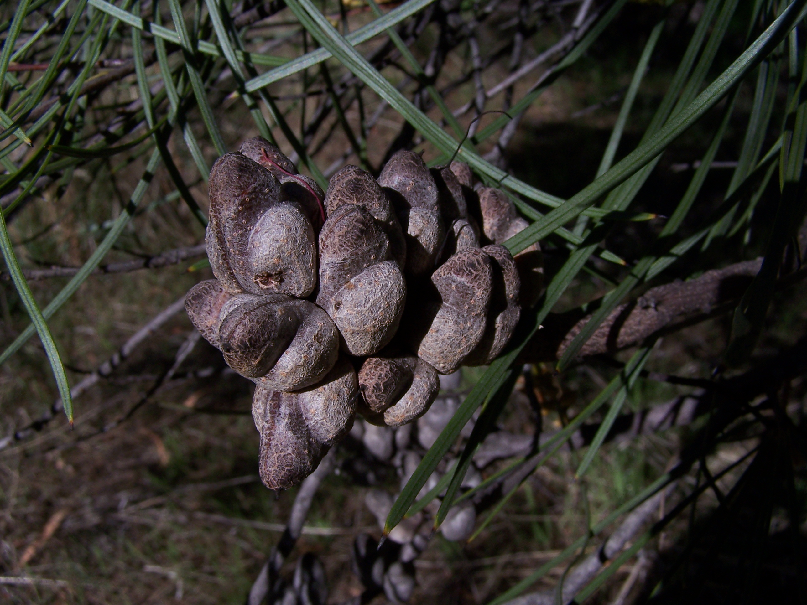 Hakea bucculenta, Red Pokers fruit(seed pod) growing naturally in Kings Park